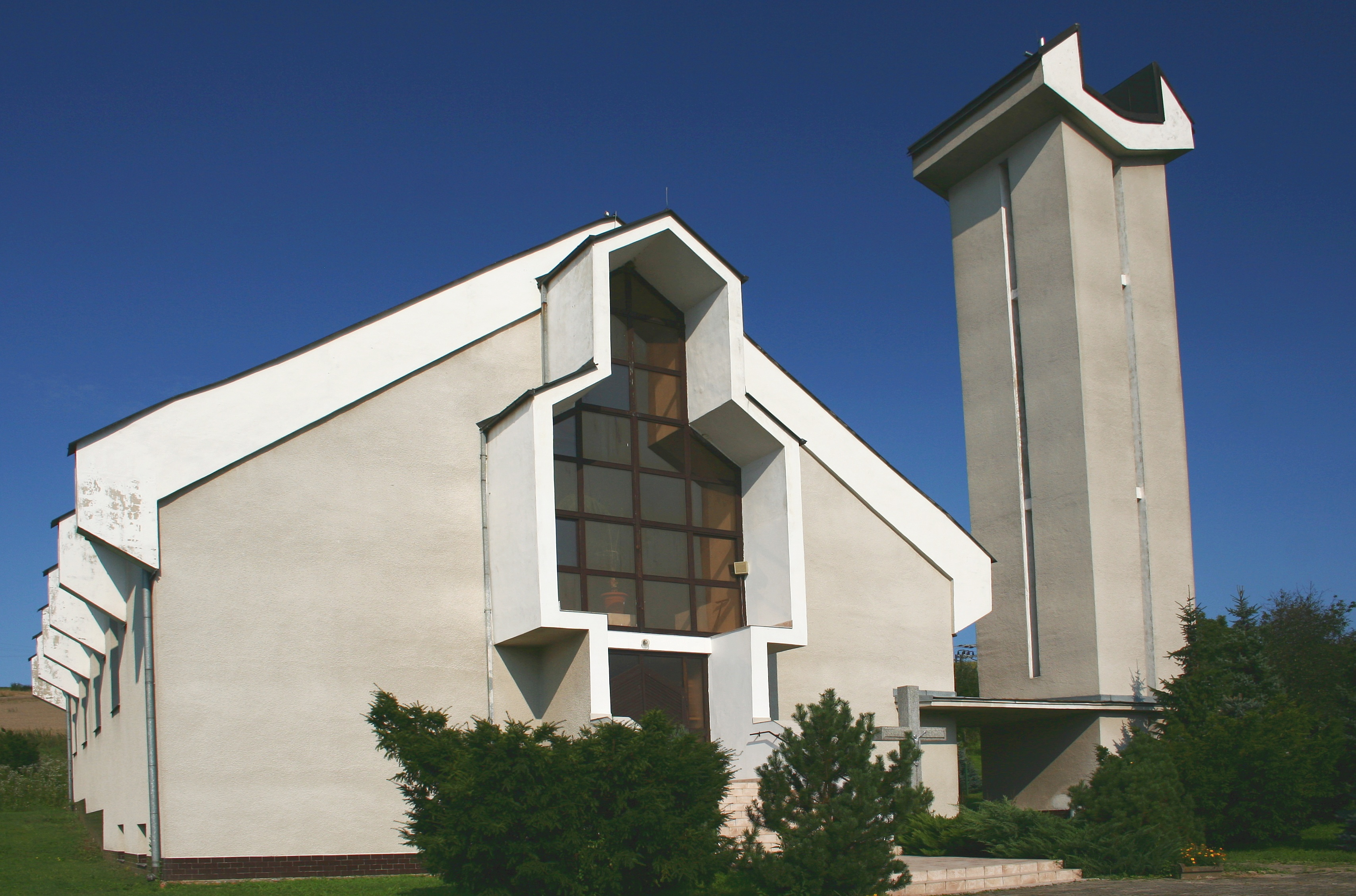 church in Holčíkovce, Slovakia